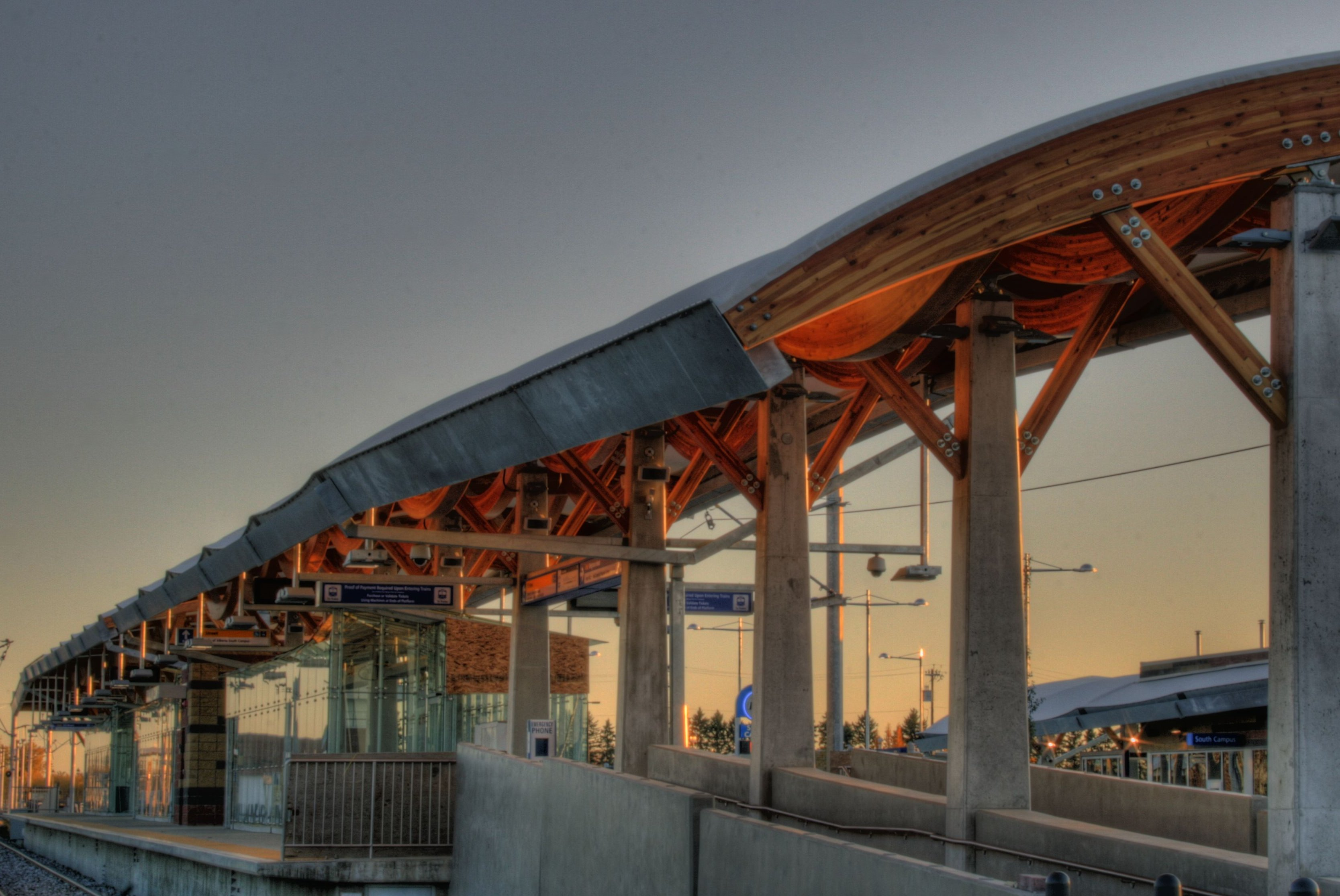 The Light Rail Transit (LRT) station at the South Campus of the University of Alberta in Edmonton, Alberta, Canada.